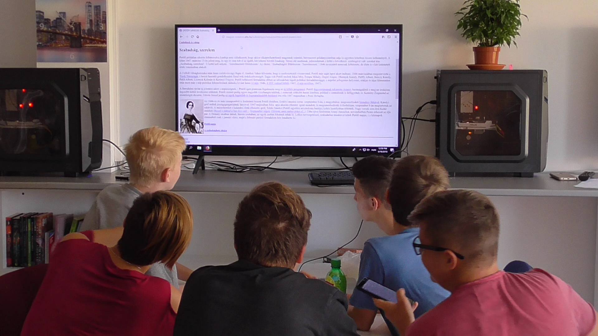 Our Hungarian students learn from Wikipedia